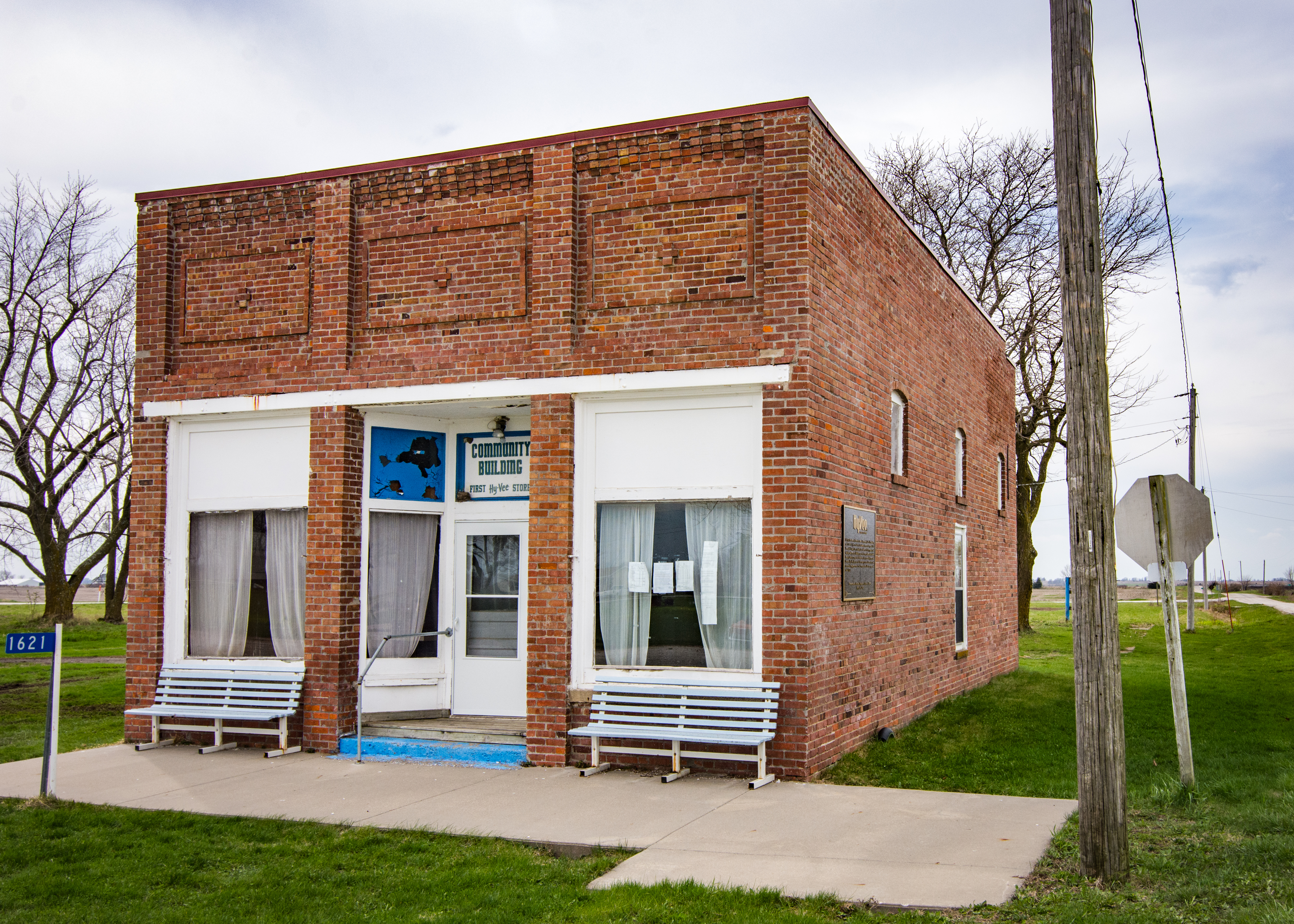 Beaconsfield Supply Store Beaconsfield, Iowa NRPH 07000451